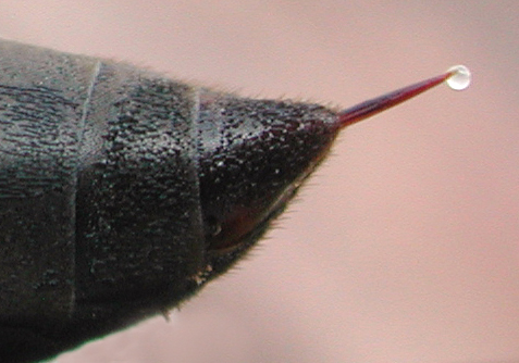 Wasp stinger closeup, venom droplet. From Image:Waspstinger1658-2.jpg. Text from source page: FeaturedPicture wasp stinger closeup, venom droplet Image copyleft: Image taken by me, released under GFDL, Pollinator 05:05, Jan 16, 2005 (UTC) GFDL